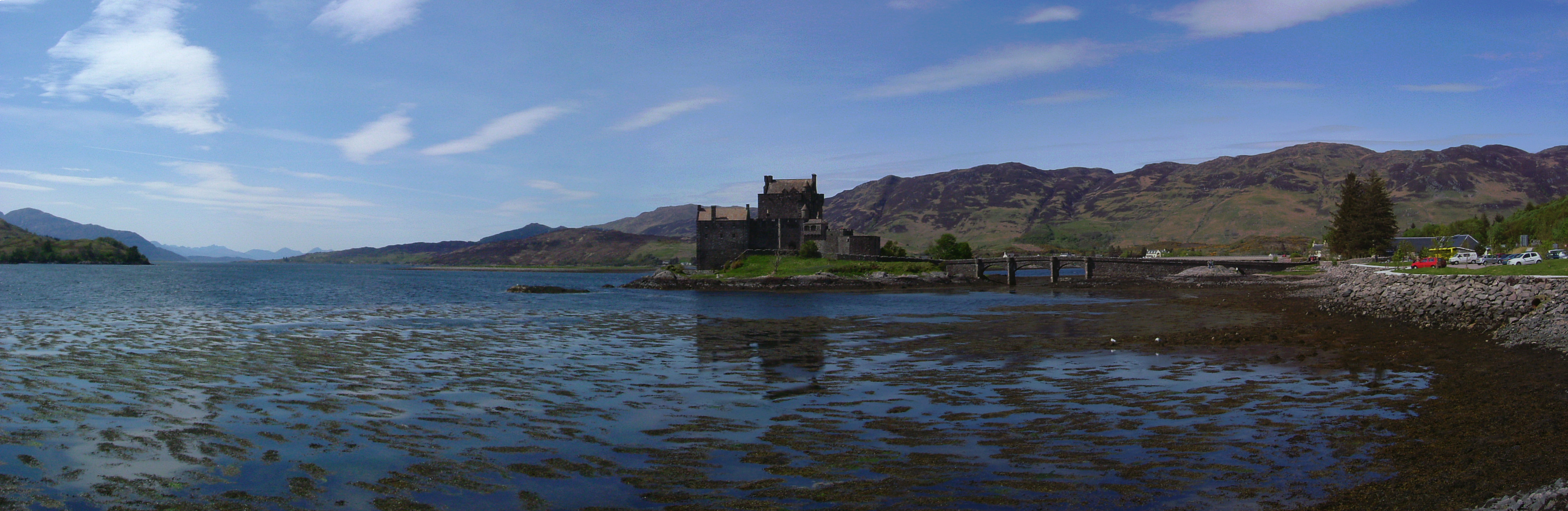 Eilean Donan Castle in Loch Duich, with the Isle of Skye visible in the distance. three photos stitched together using hugin, nona and enblend.